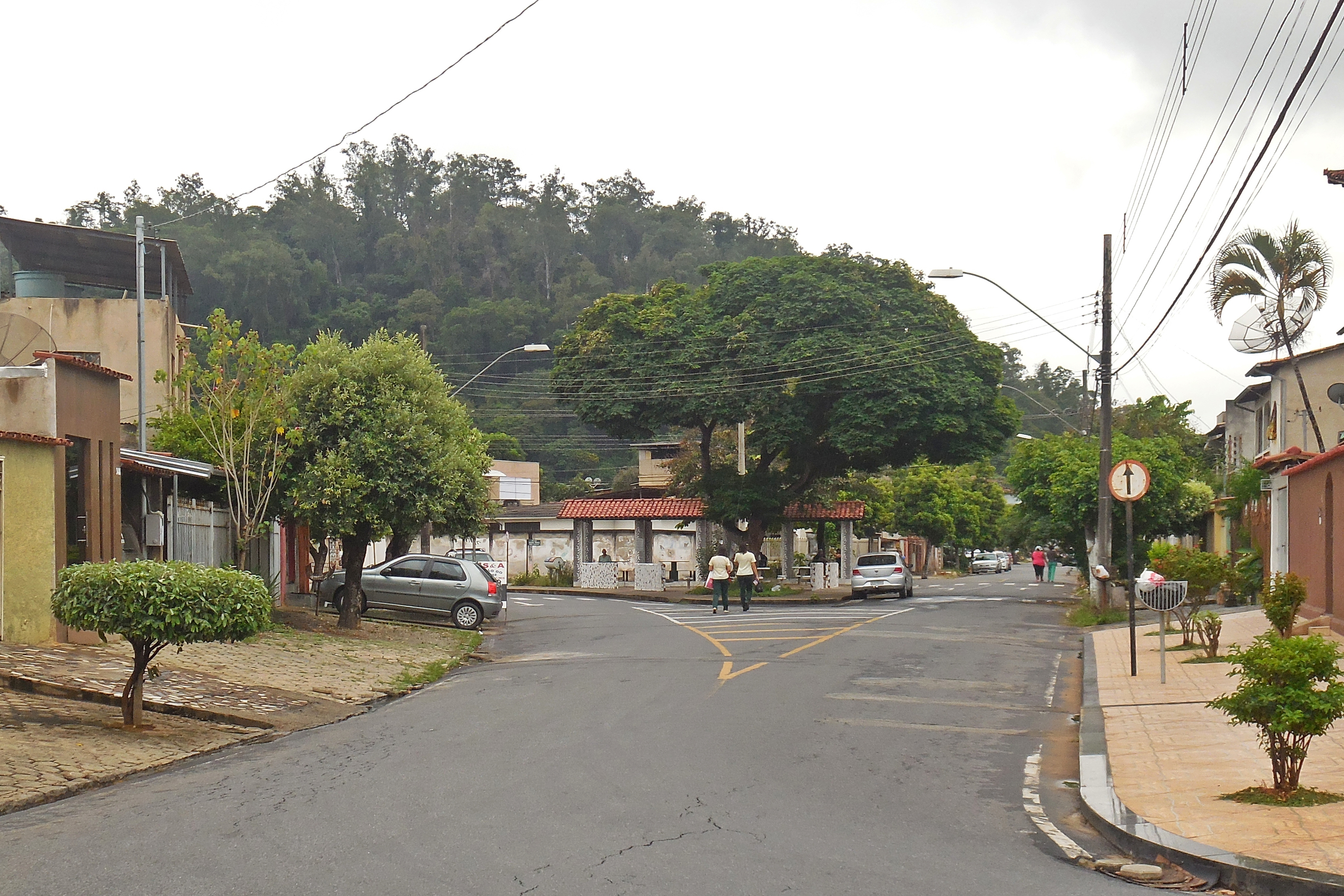 Streets in the Quitandinha neighborhood, in Timóteo, Minas Gerais, Brazil.